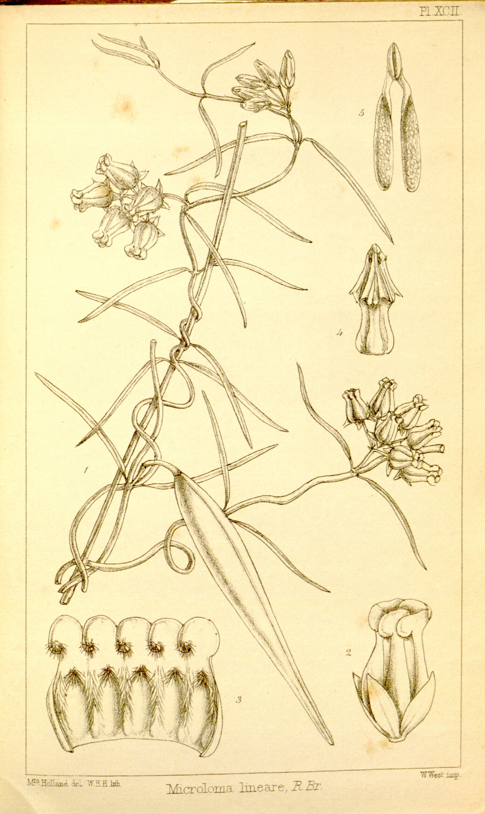 Microloma lineare R.Br. - William Henry Harvey - Thesaurus capensis, or illustrations of South African flora, , vol. 1: t. 92 (1859) - [W.H. Harvey] (1811-1866)